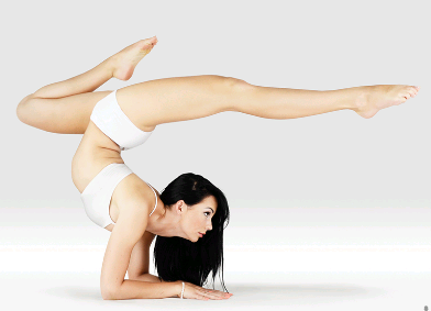 Mr-yoga-stretched-out-scorpion.jpg